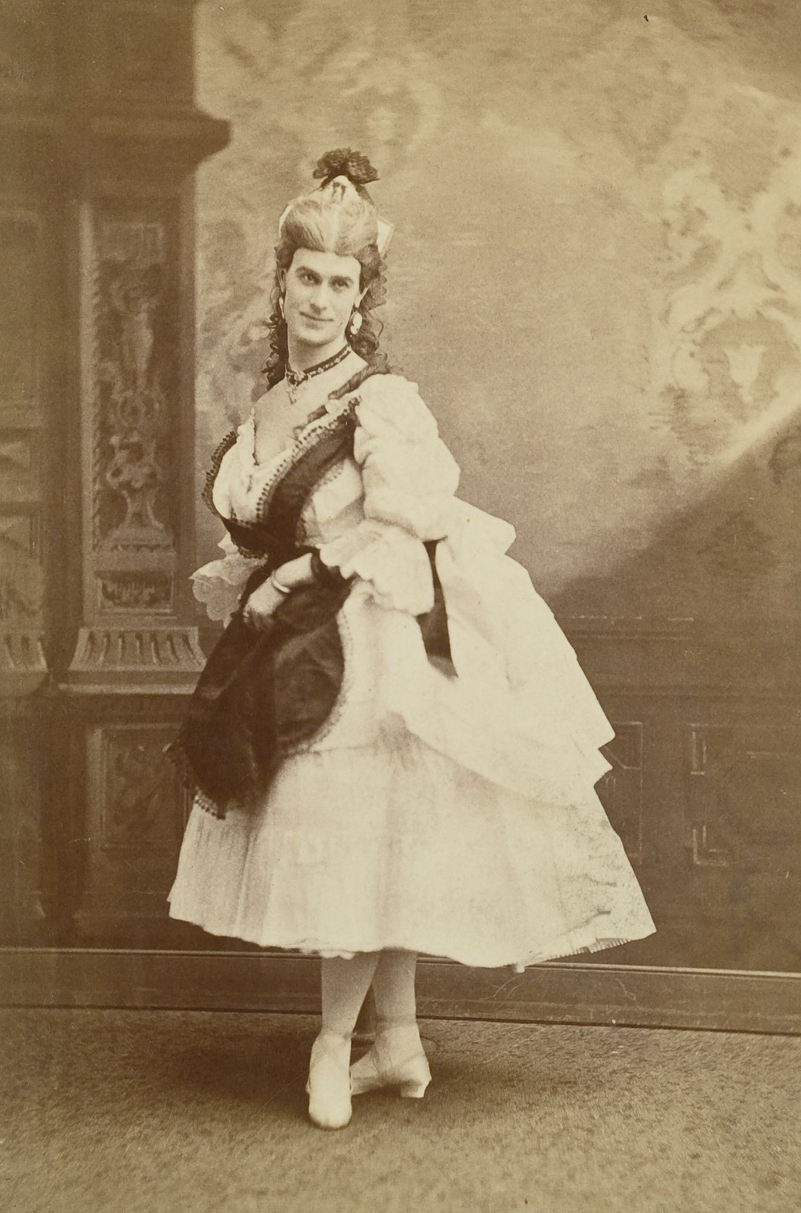 Cabinet card image of American vaudeville actor and female impersonator Francis Leon (b. 1844). In costume as a woman. From a collection dated 1919. Cropped version. TCS 1.640, Harvard Theatre Collection, Harvard University